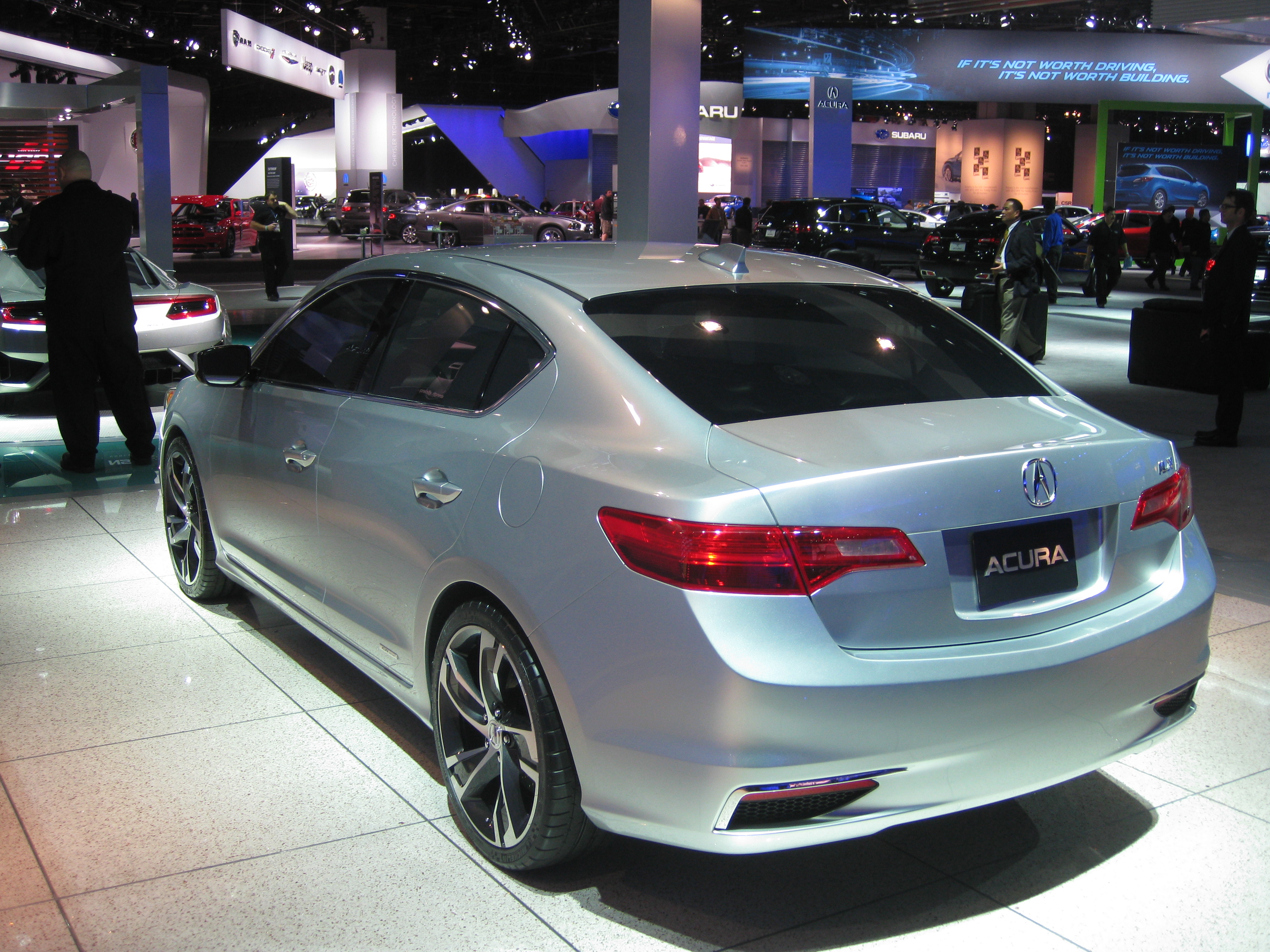 For more info and images please check